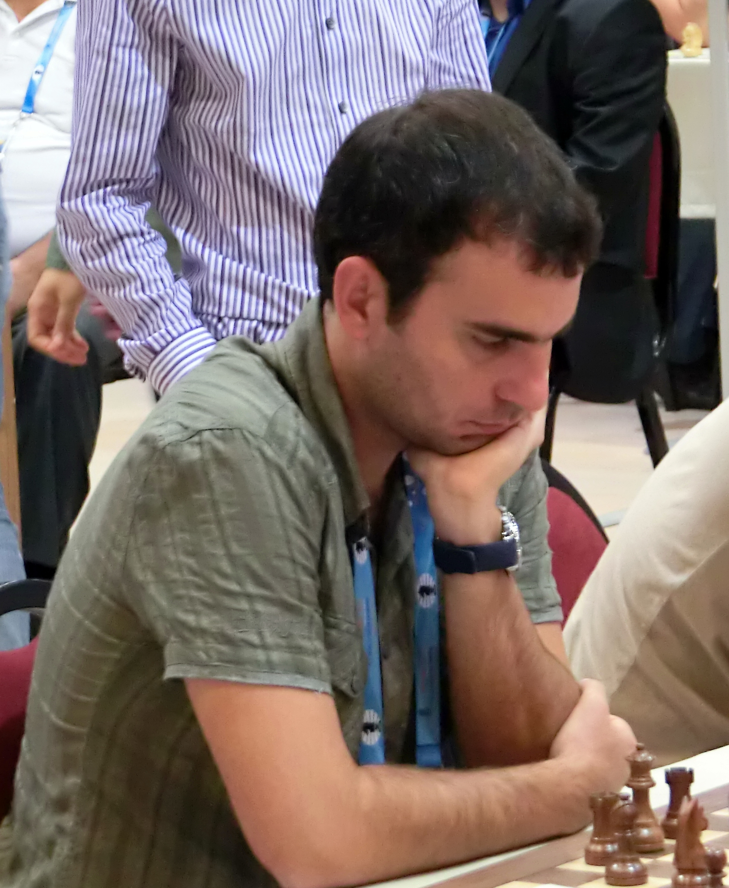 Leinier Domínguez Pérez, chess grandmaster from Cuba